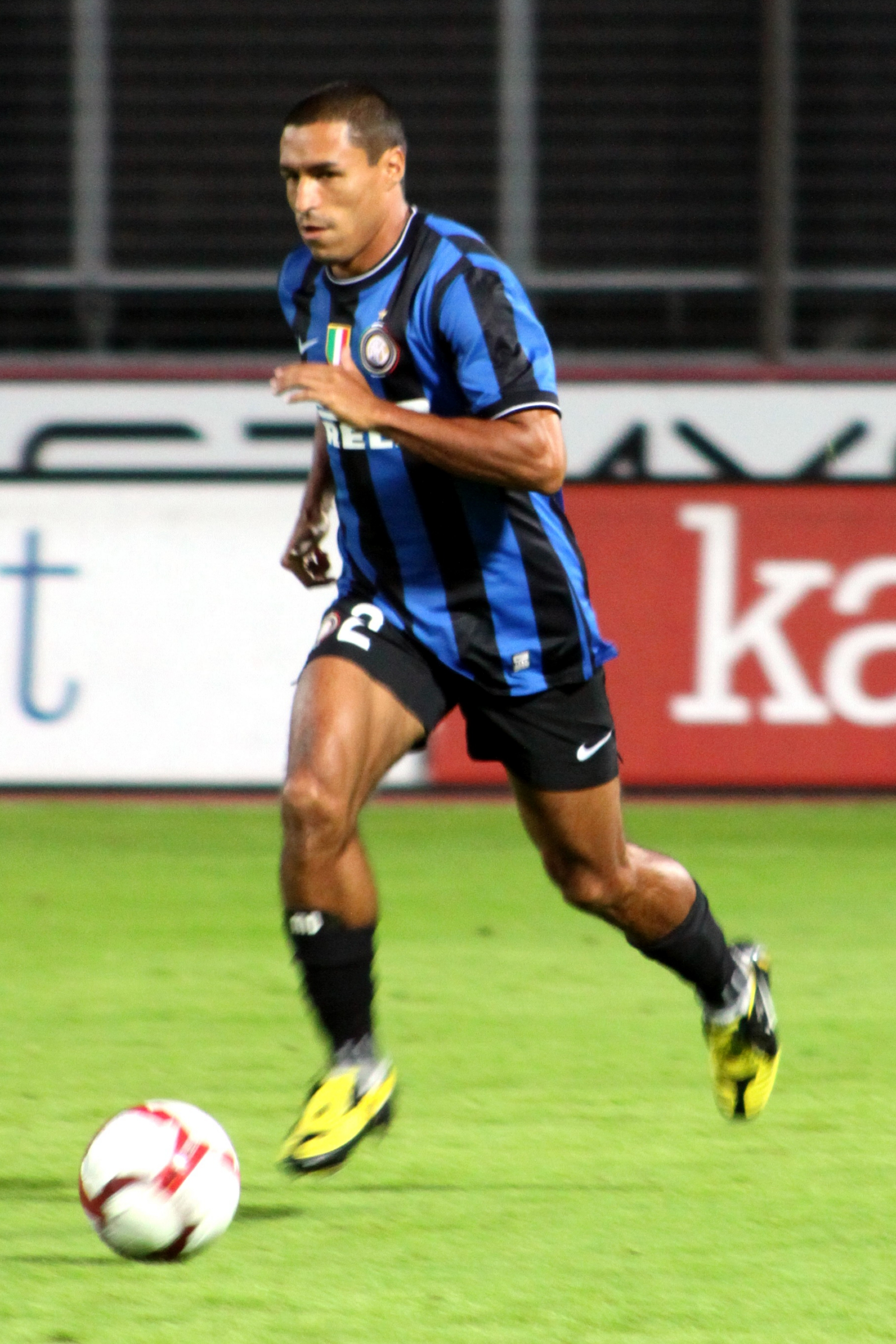 Ivan Cordoba - F.C. Internazionale Milano